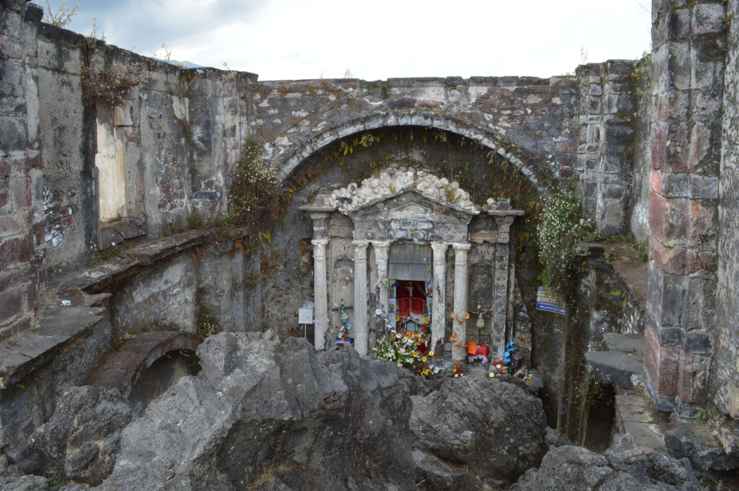 Former altar of the San Juan Parangaricutiro church in Michoacan, Mexico